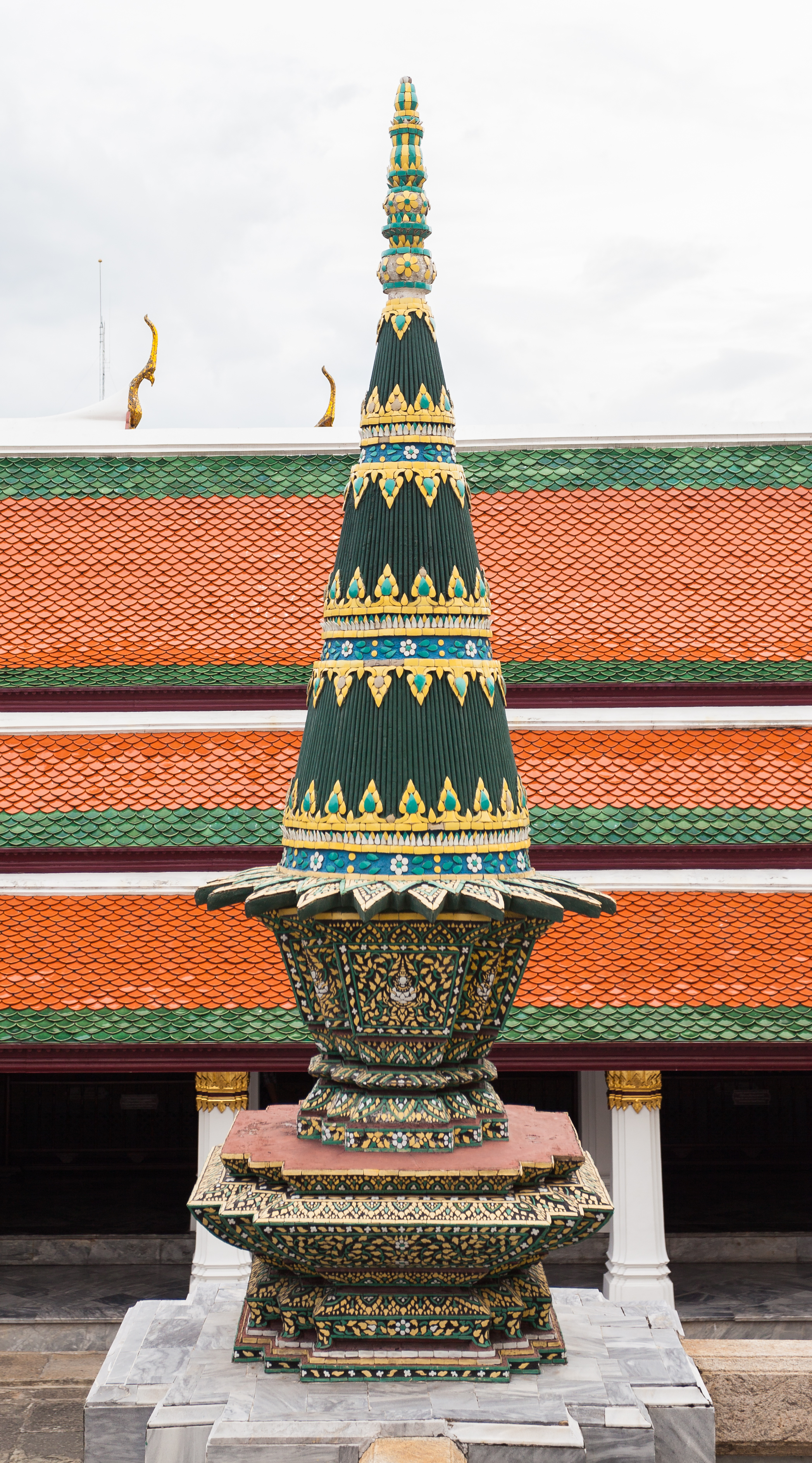 Grand Palace, Bangkok, Thailand